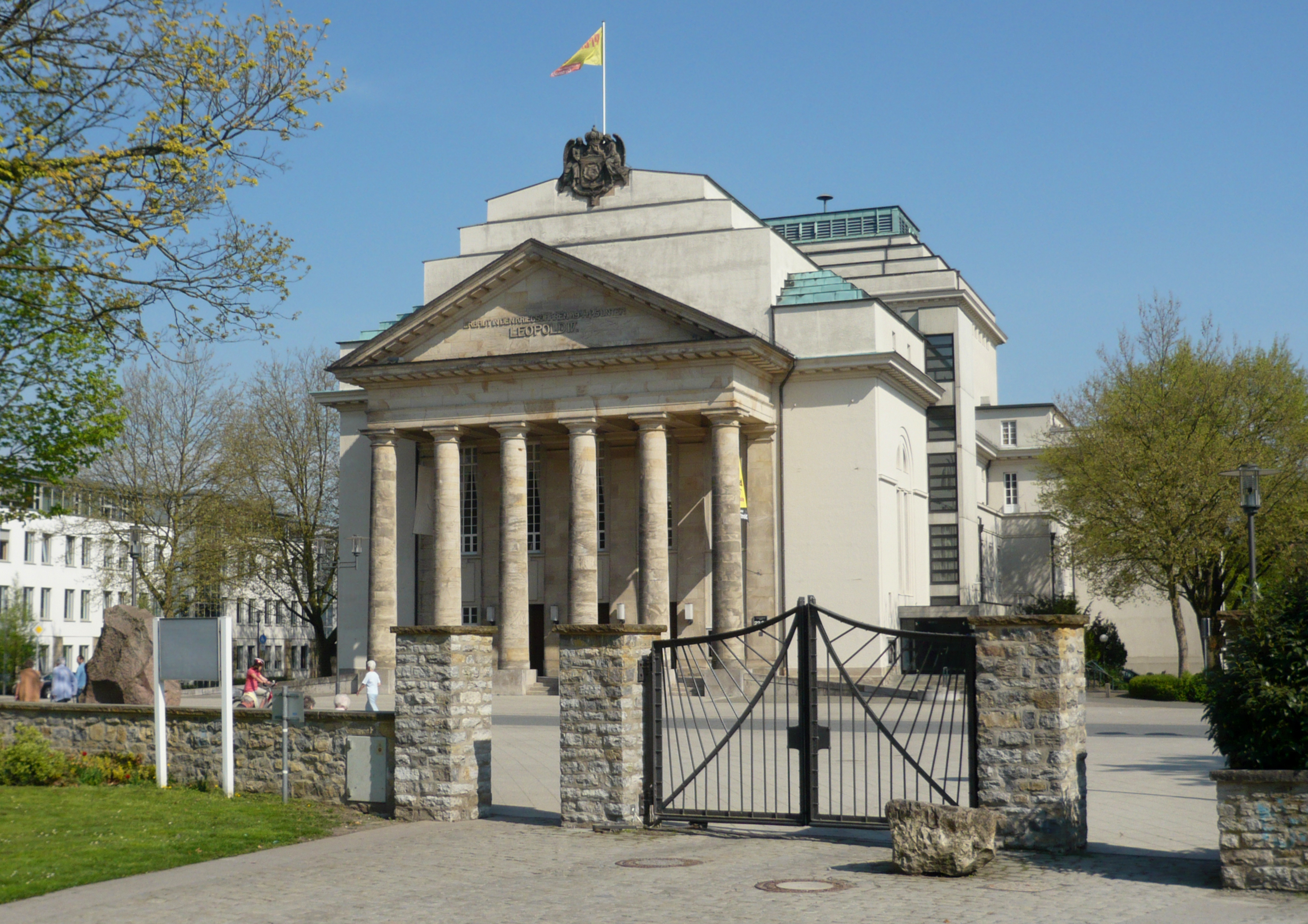 State theater in Detmold, District of Lippe, North Rhine-Westphalia, Germany. The theater was built in 1825 by the Prince of Lippe.